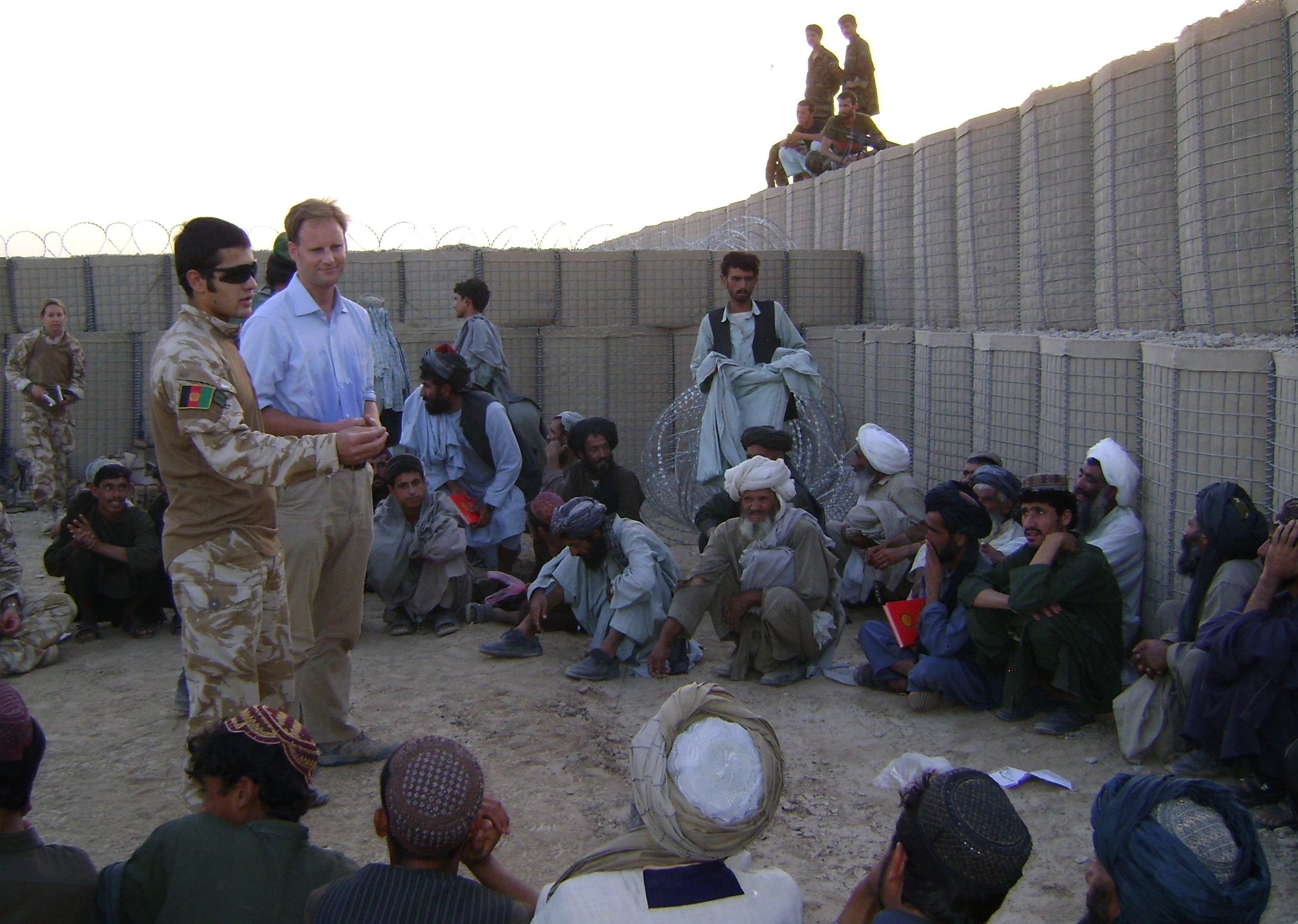 I took this picture in Helmand, Afghanistan, in 2009. Iain King was speaking where I was working.